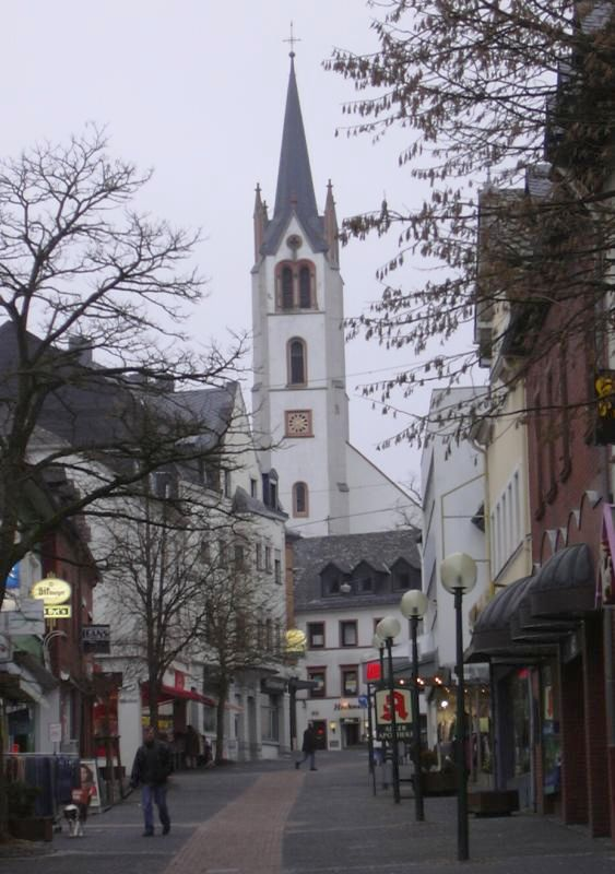 Pedestrian zone and church in Hermeskeil, Germany